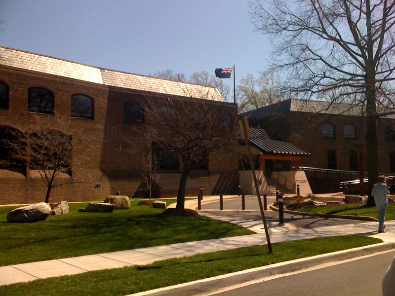 Embassy of New Zealand, Washington DC